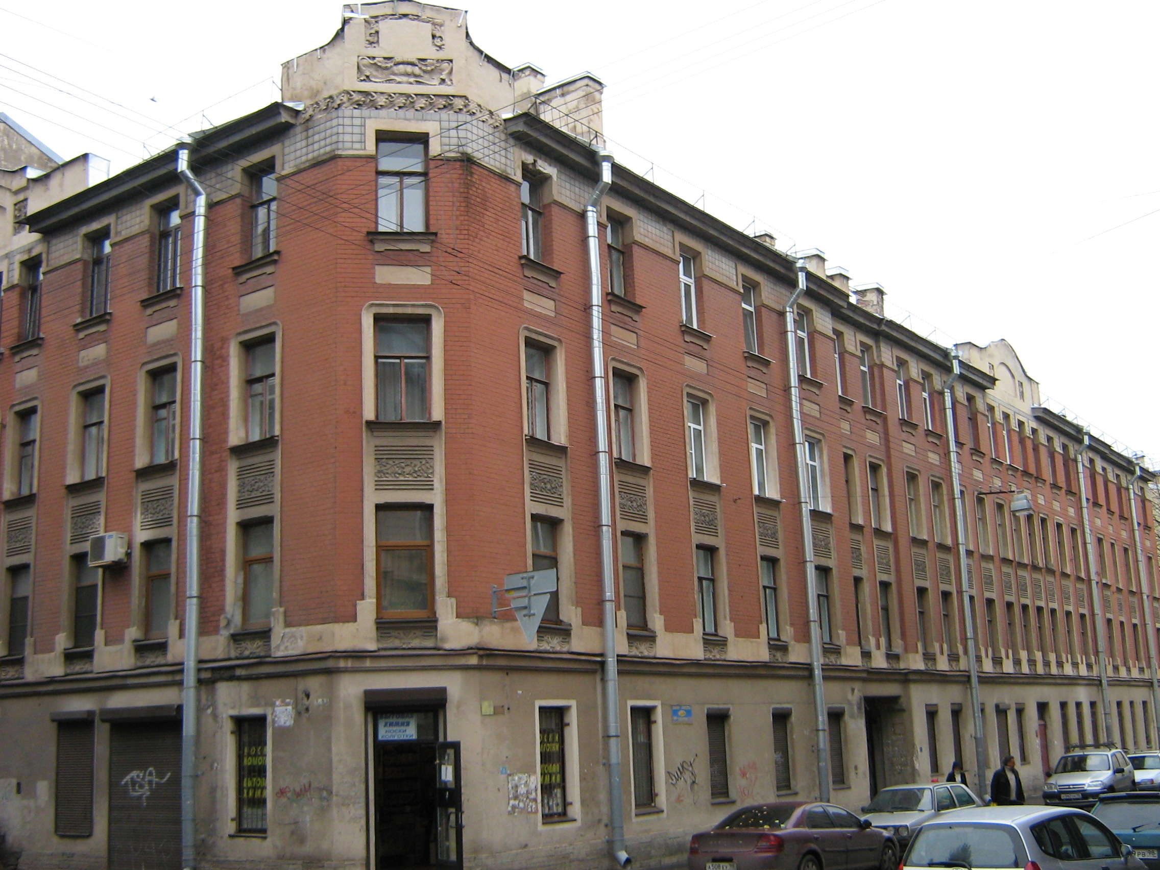 70, Maly Prospect P.S. (Small avenue of the Petrograd side) / 18, Polozova street, Saint-Petersburg, Russia. Architect N. D. Kazenelenbogen, 1906.